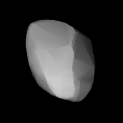 3D convex shape model of 296 Phaëtusa, computed using light curve inversion techniques. J. Hanuš, J. Ďurech, M. Brož, B. D. Warner (June 2011). "A study of asteroid pole-latitude distribution based on an extended set of shape models derived by the lightcurve inversion method". Astronomy and Astrophysics 530: A134. ISSN 0004-6361. arXiv